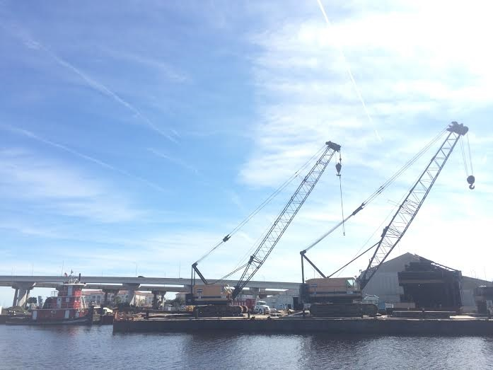 The Moody shipyard in Jacksonville, Florida